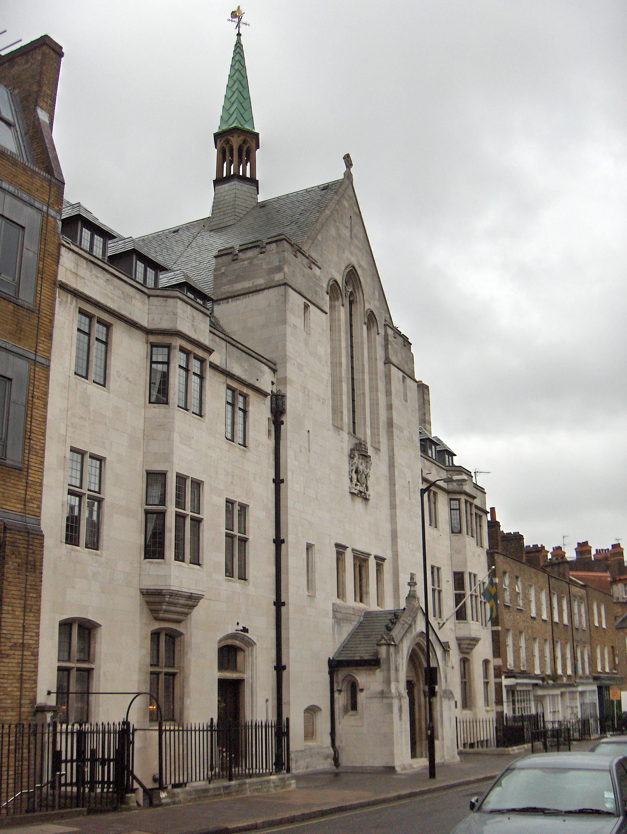 Swedish Church, Harcourt Street, London. Built in 1911. Architect Herbert Wigglesworth